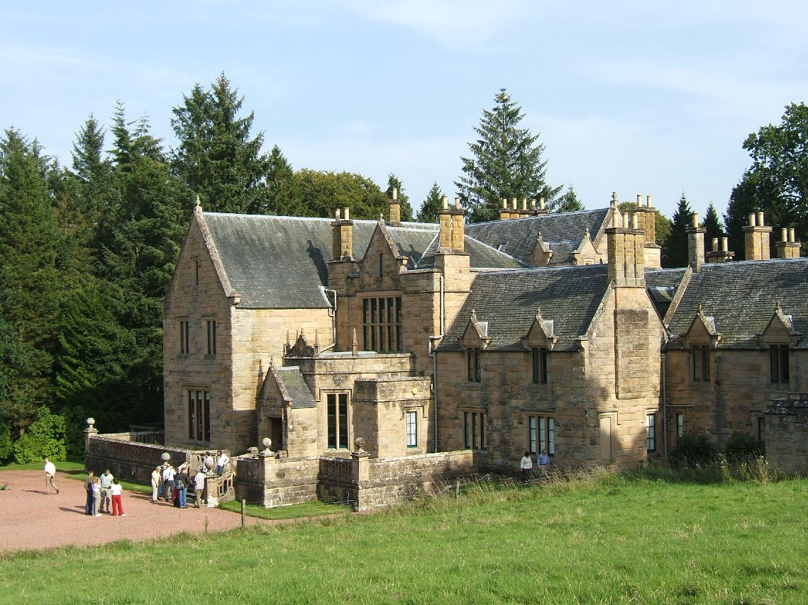 Corehouse in Lanarkshire, Scotland. The house is situated by the River Clyde and close to New Lanark.